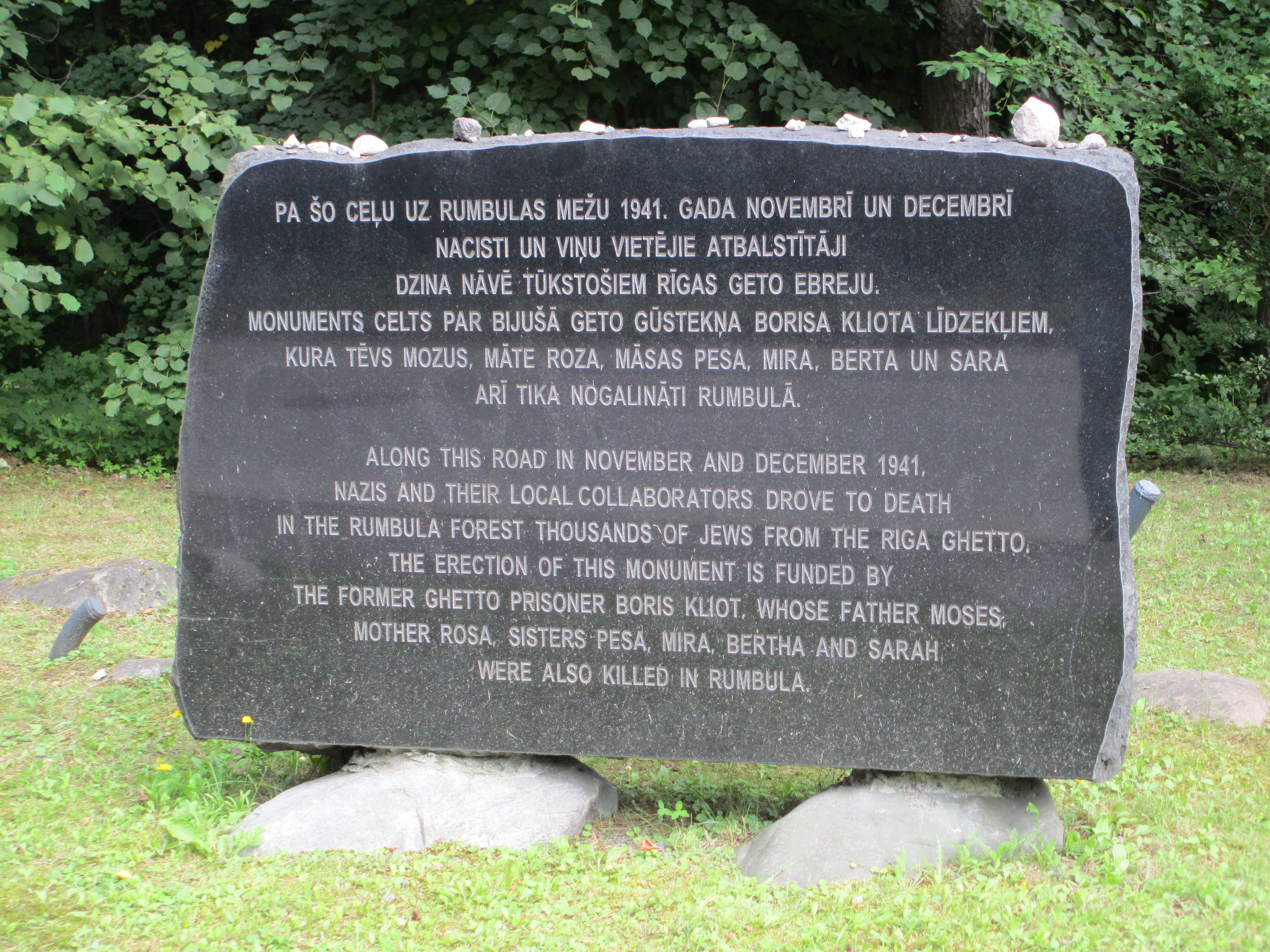 memorial plaque at the entrance to rumbula killing forest near riga